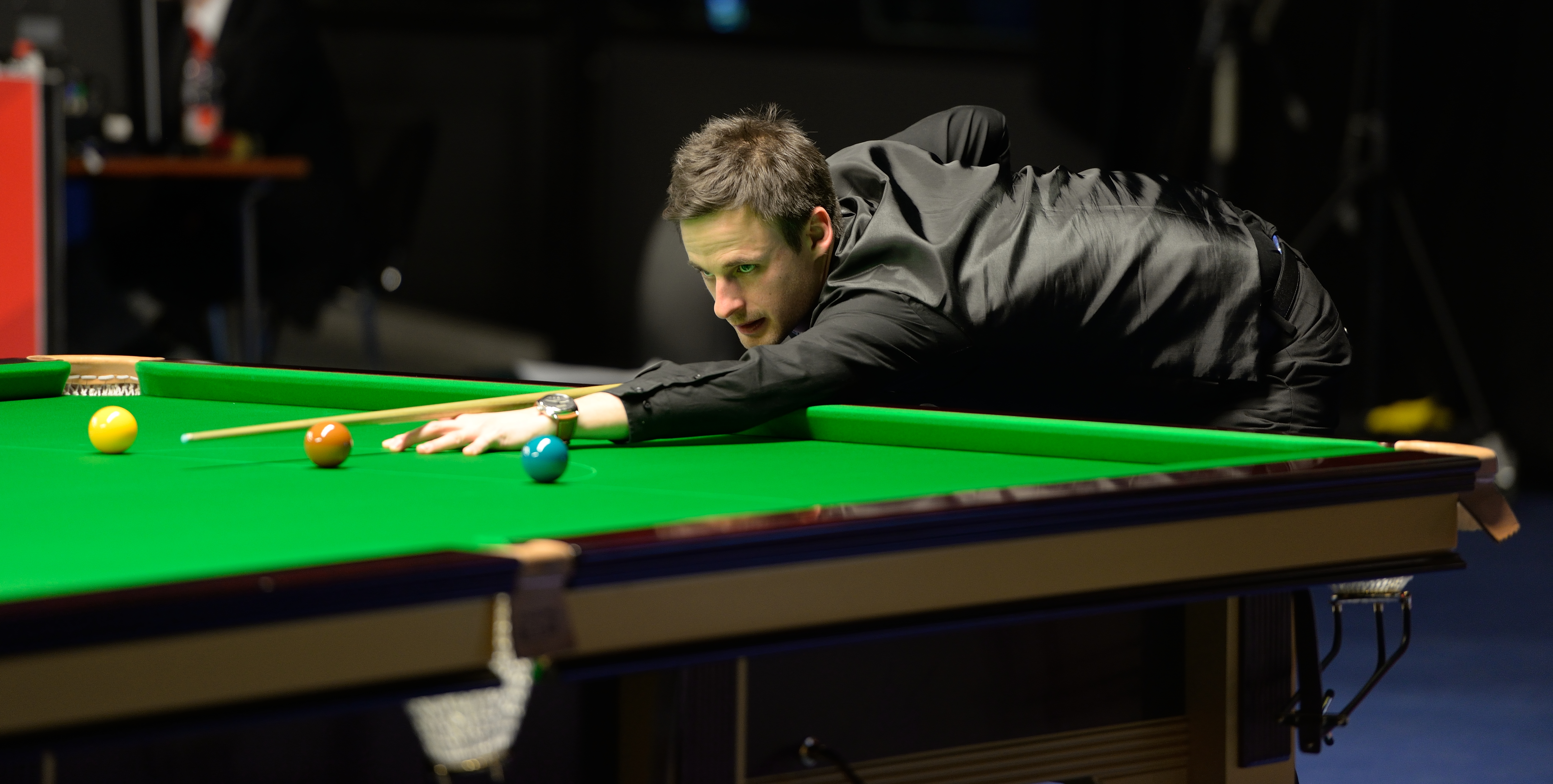 Picture taken in Berlin during the Snooker German Masters in 2015. David Gilbert.